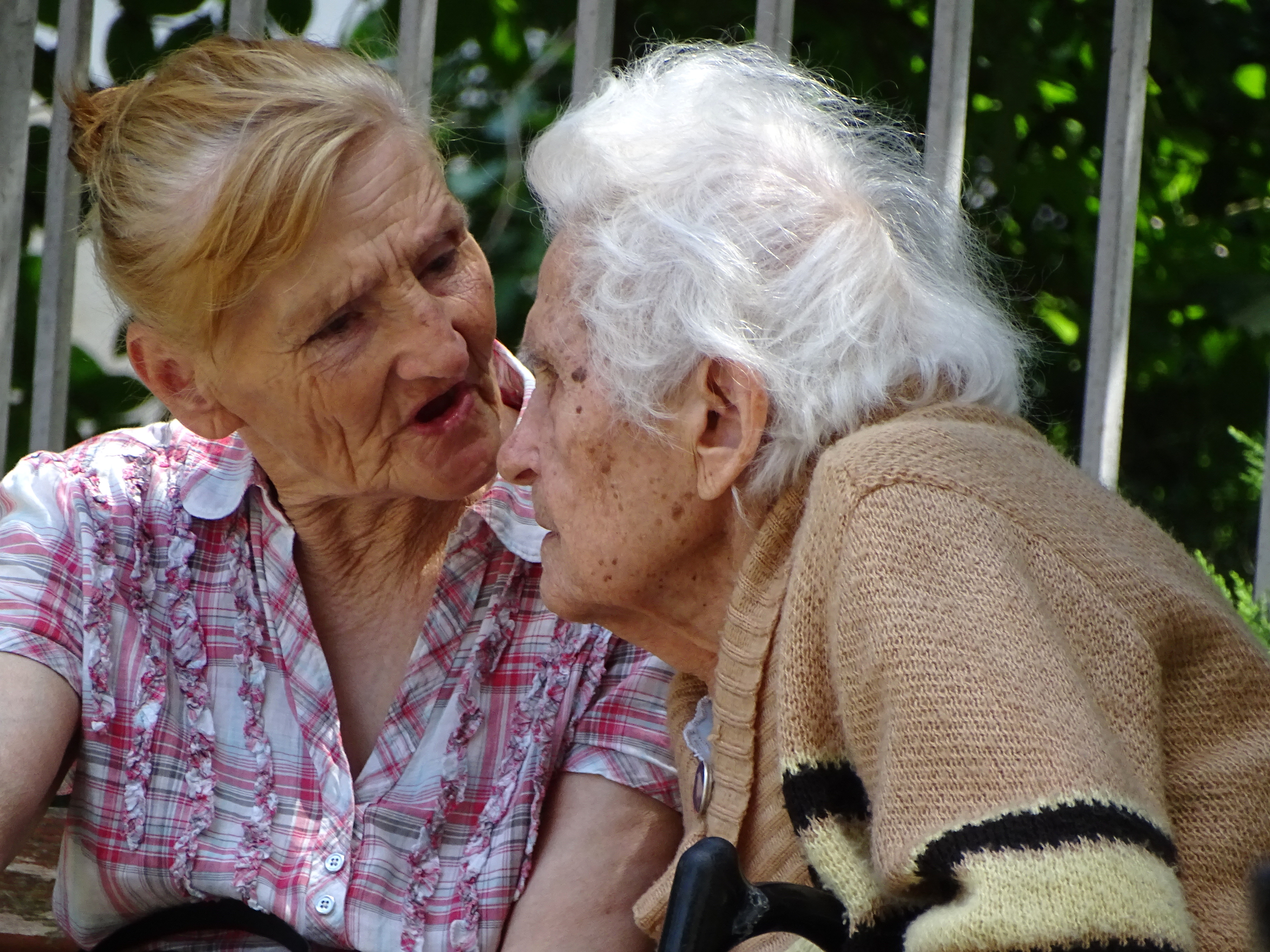 Elderly Women in Plaza - Vratsa - Bulgaria